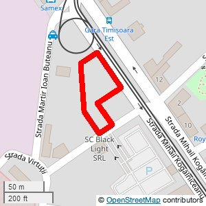 Map of heritage site "Ansamblul urban III", Timișoara, Romania